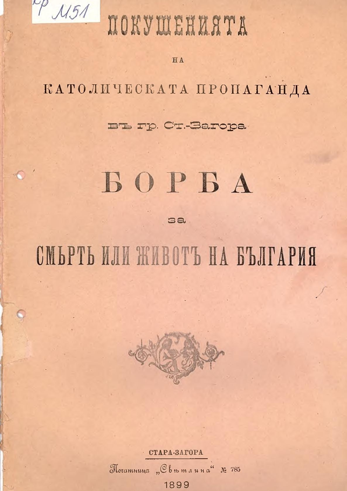 Cover of the book "The Intrusion of the Catholic Propaganda"